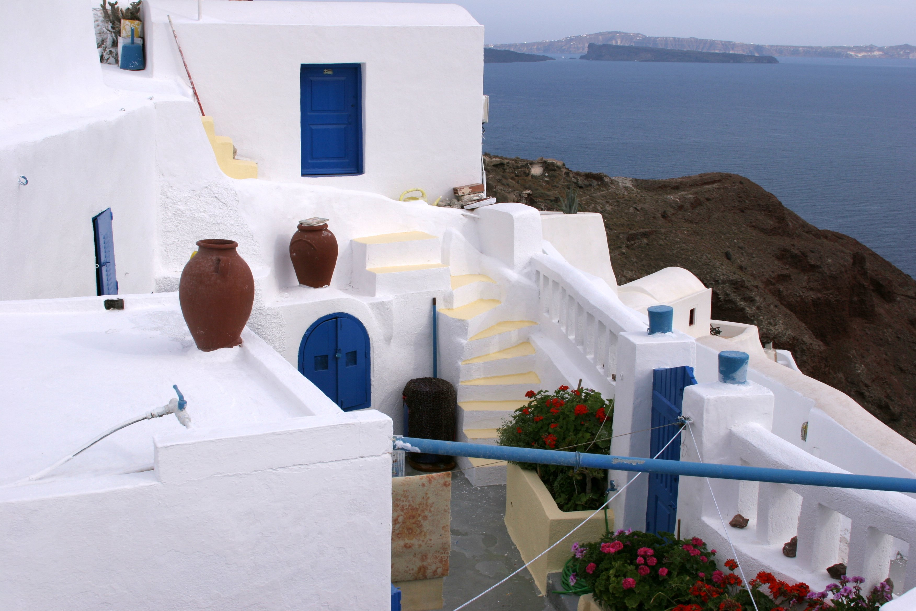 A Greek house rendered and white washed